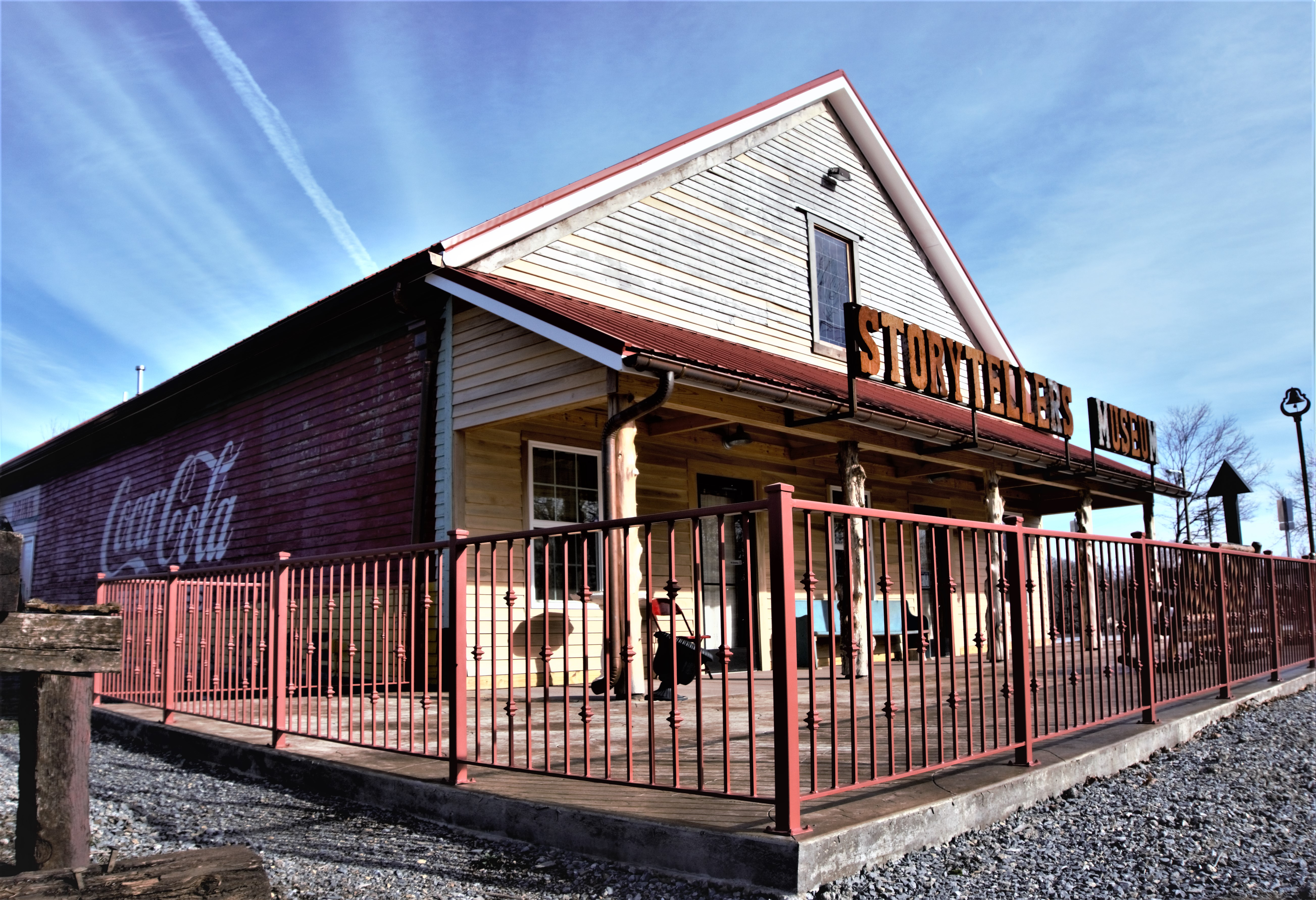 The Storytellers Museum is in a general store that the great Red Wortham converted into a recording studio, and that Johnny Cash used as a place for local concerts.